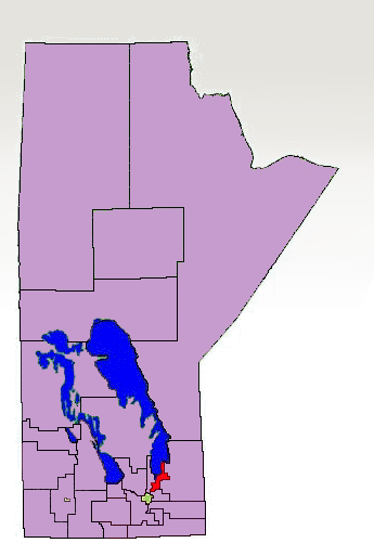 The 1998-2011 boundaries for the Selkirk electoral district highlighted in red